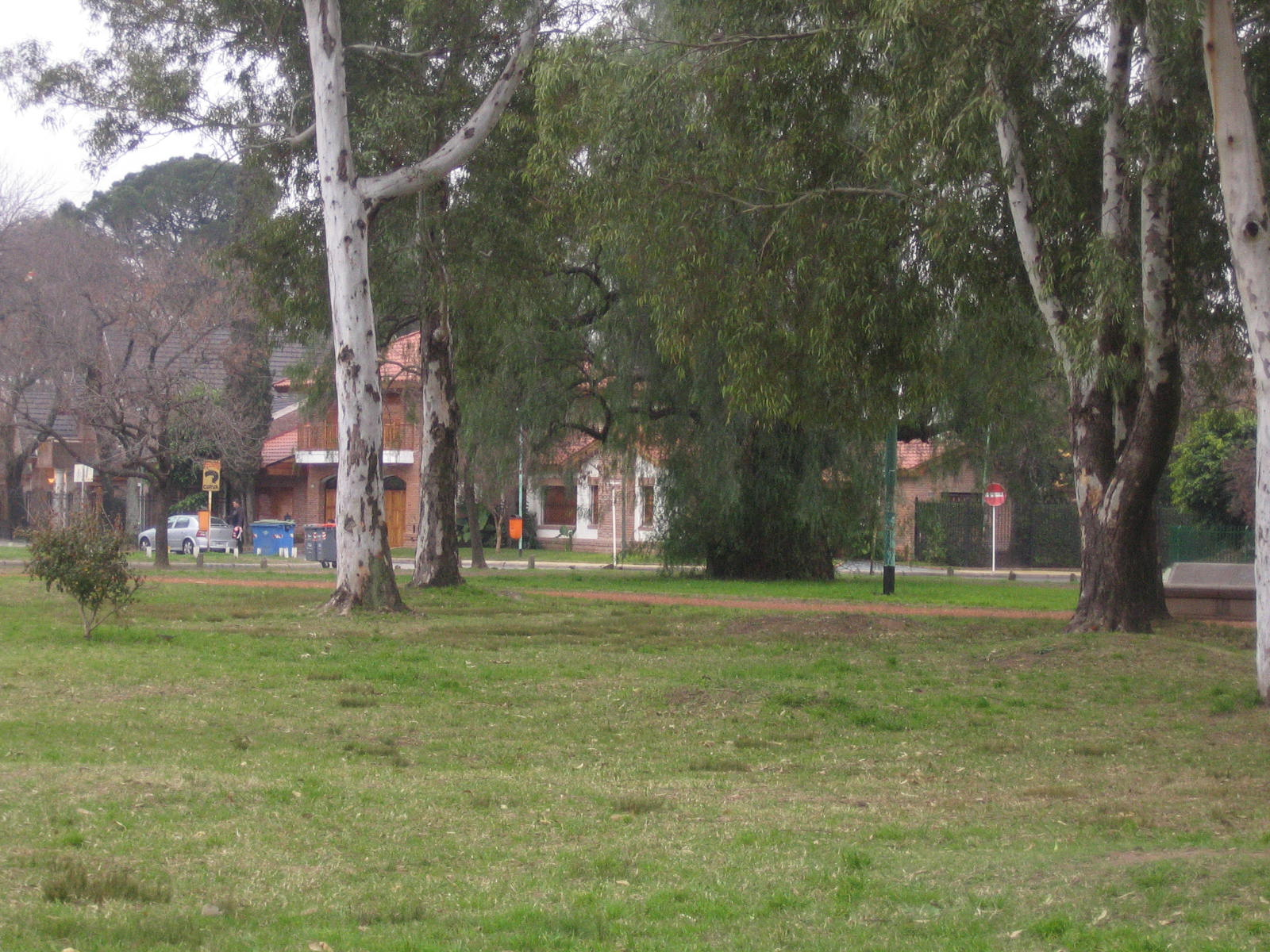 General Paz Park - Buenos Aires - Argentina